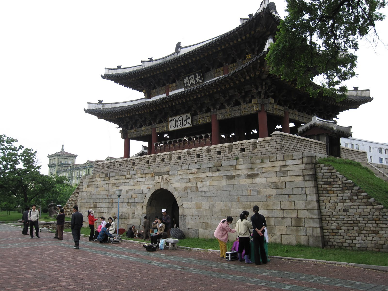 17th-century Taedong Gate, with film crew preparing for a location shoot